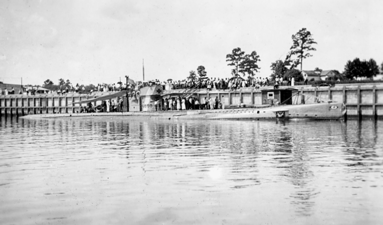 The former German UB III-class submarine UB 88 in the United States. SM UB 88 was commissioned on 26 January 1918 and made five patrols, sinking 14 ships for a total of 31,076 tons. It was surrendered to the USA on 26 November 1918 and used for exhibitions in the U.S. and Panama. Later it was used for tests and scuttled off San Pedro, California (USA), on 3 January 1921, after being used as a gunnery target by the destroyer USS Wilkes (DD-67).